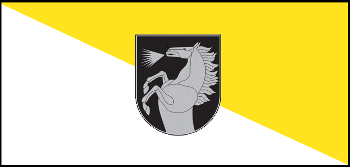 Flag of Radviliškis